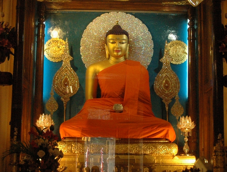 Statue of Buddha, Mahabodhi temple, Bodh Gaya, Bihar.